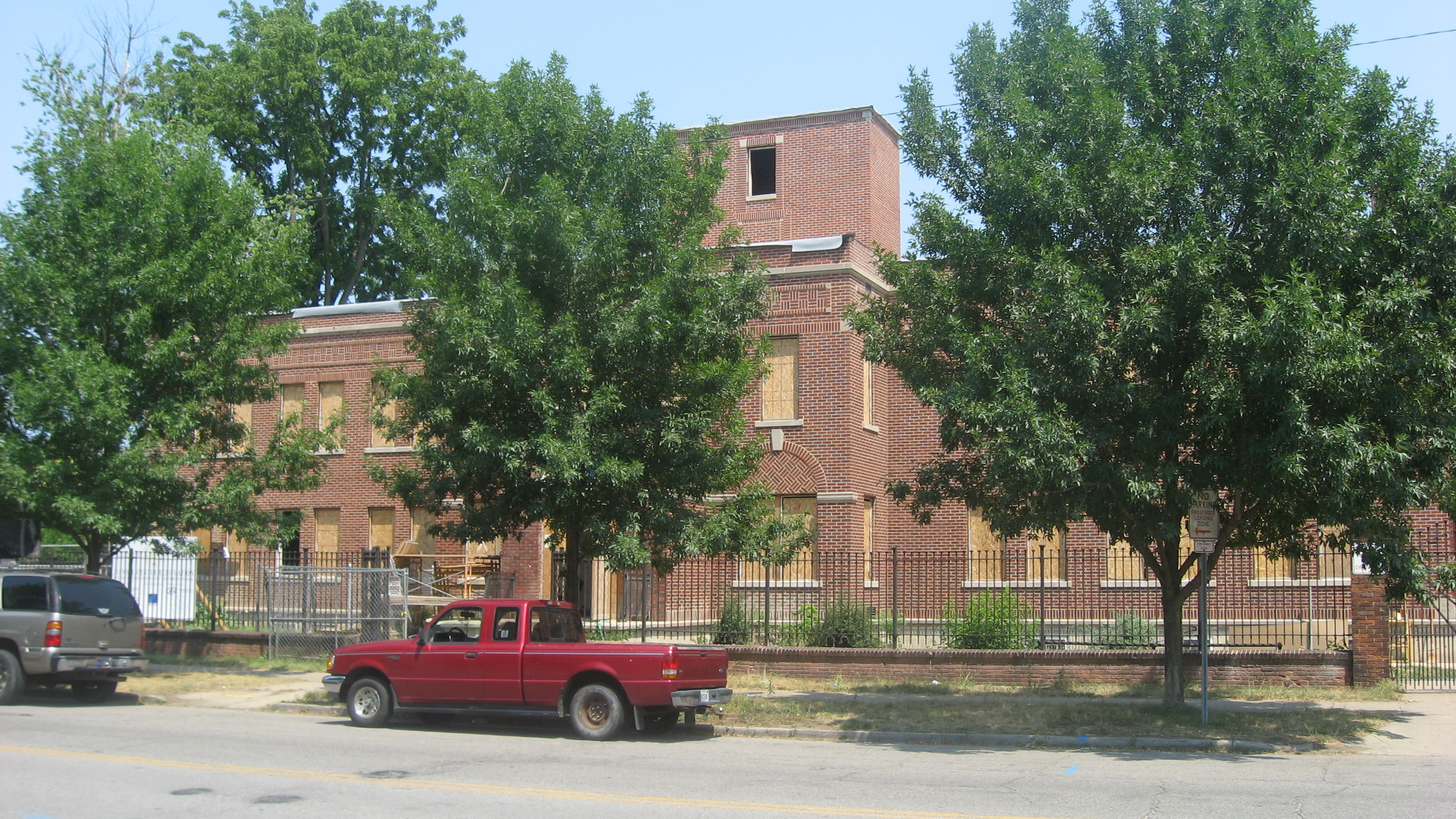 Front of the Children's Dispensary, located at 1045 W. Washington Street in South Bend, Indiana, United States. Built in 1910, it is listed on the National Register of Historic Places.